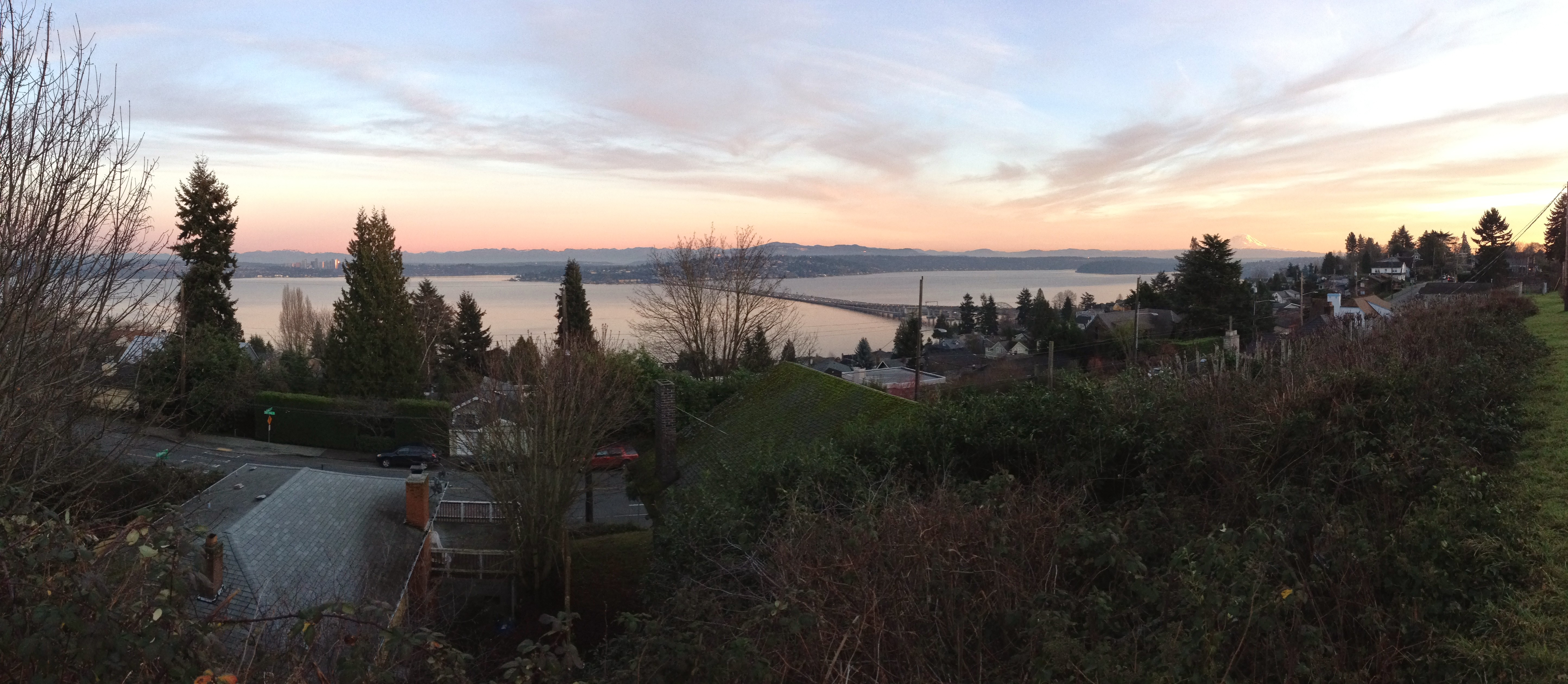 From the east side of Seattle on Mount Baker Ridge